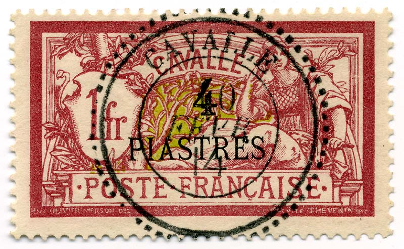 Scan of French post offices in the Turkish Empire (Cavalle) 4pi stamp